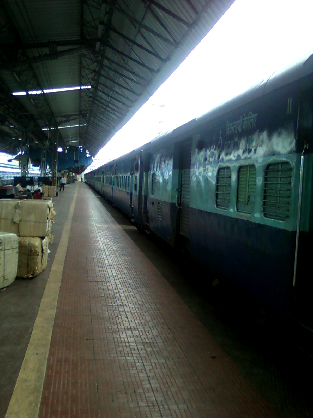 17488 Tirupati bound Tirumala Express at Visakhapatnam train station